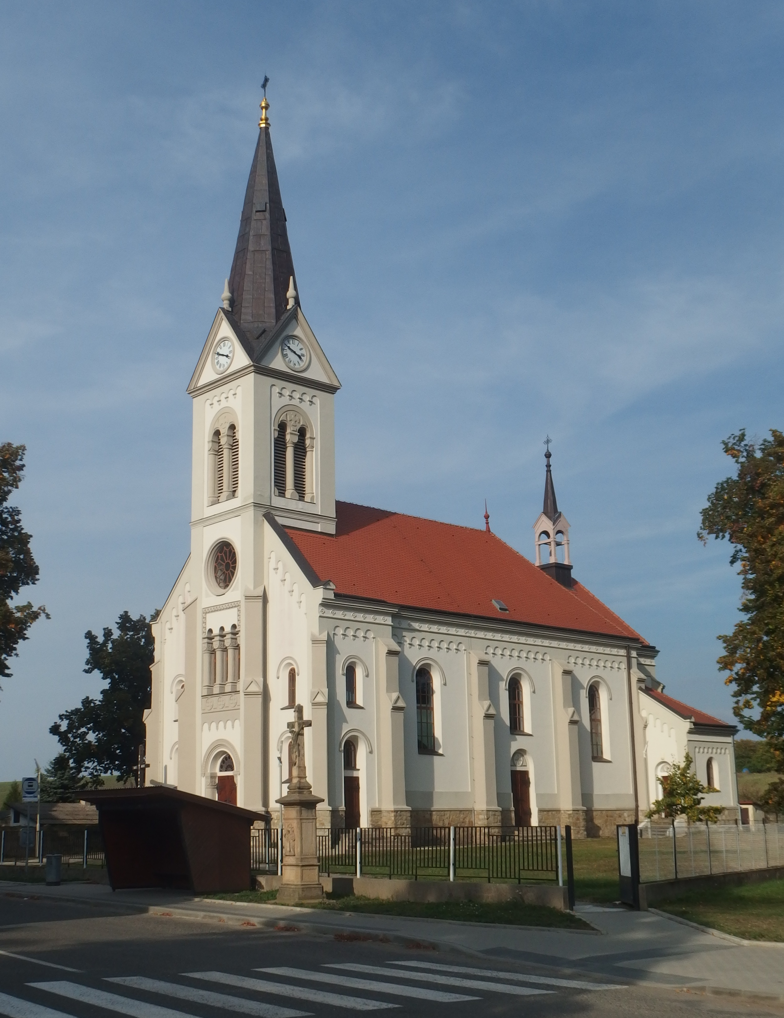 Radějov, Hodonín District, Czech Republic.